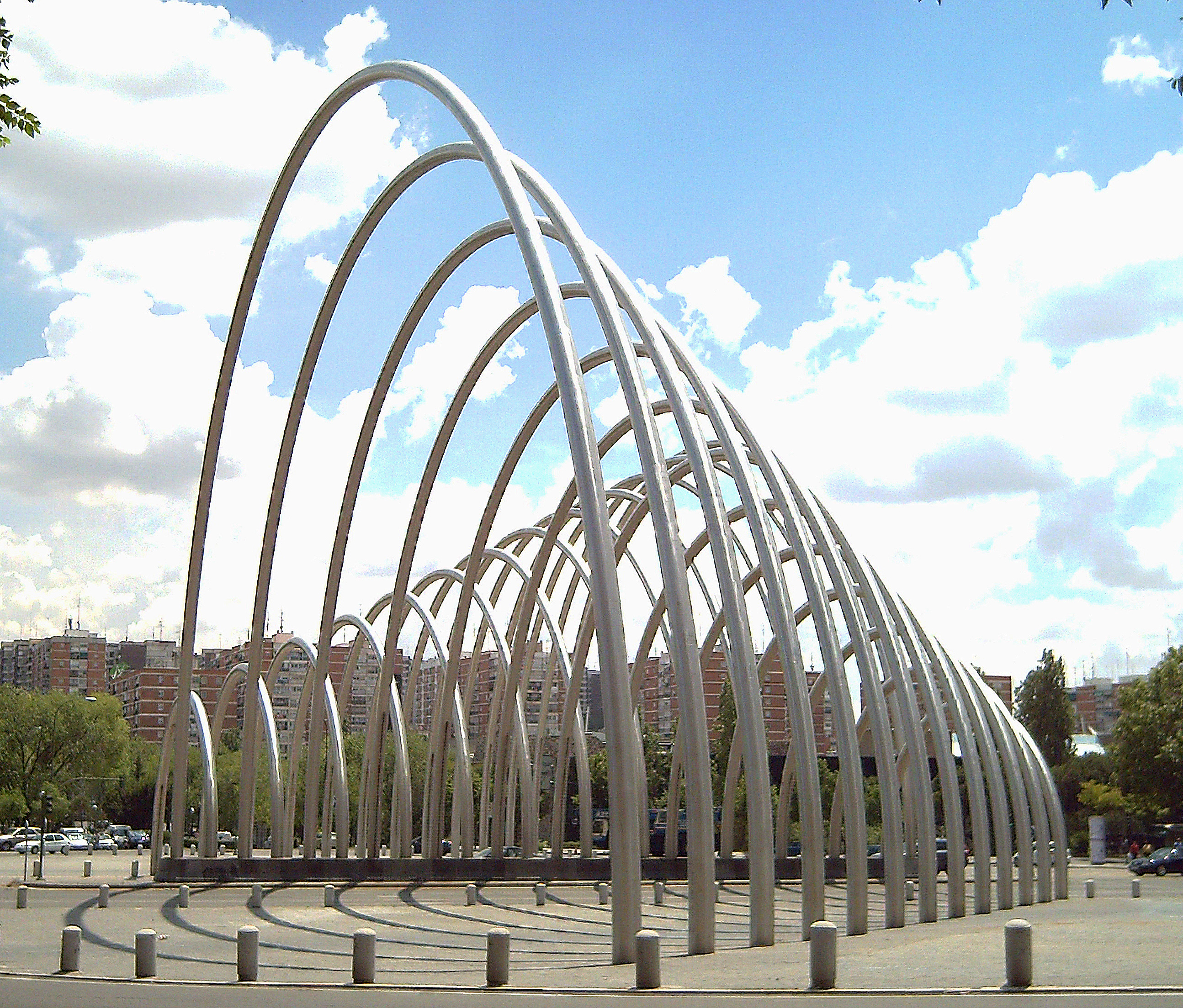 Puerta de la Ilustración ("Gate of Enlightenment") in Madrid (Spain).